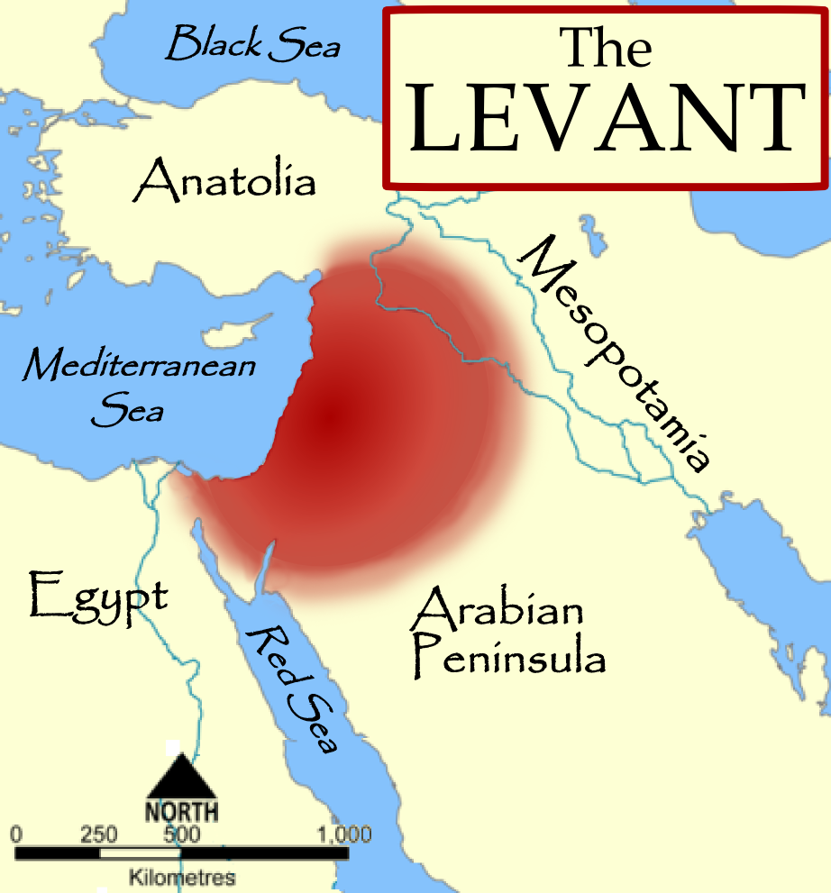 The Levant, based on a NormanEinstein's Image:Fertile Crescent blank base map.png.